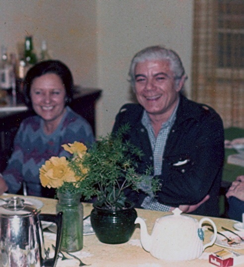 Photo showing Vi and Vinnie Colletta, photograph by Franklin Colletta